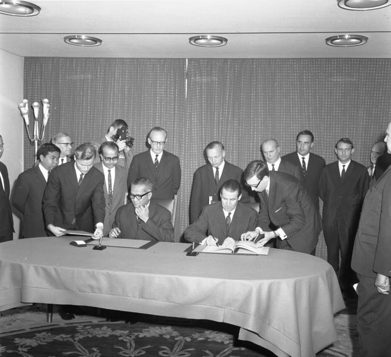 Signing of a capital assistance agreement BRD - Malaysia (At the front from left to right: The Malaysian Ambassador Dato Abdul Hamid bin Haji Jumat and Federal Foreign Minister Dr. Schröder at the German Foreign Office) Bonn